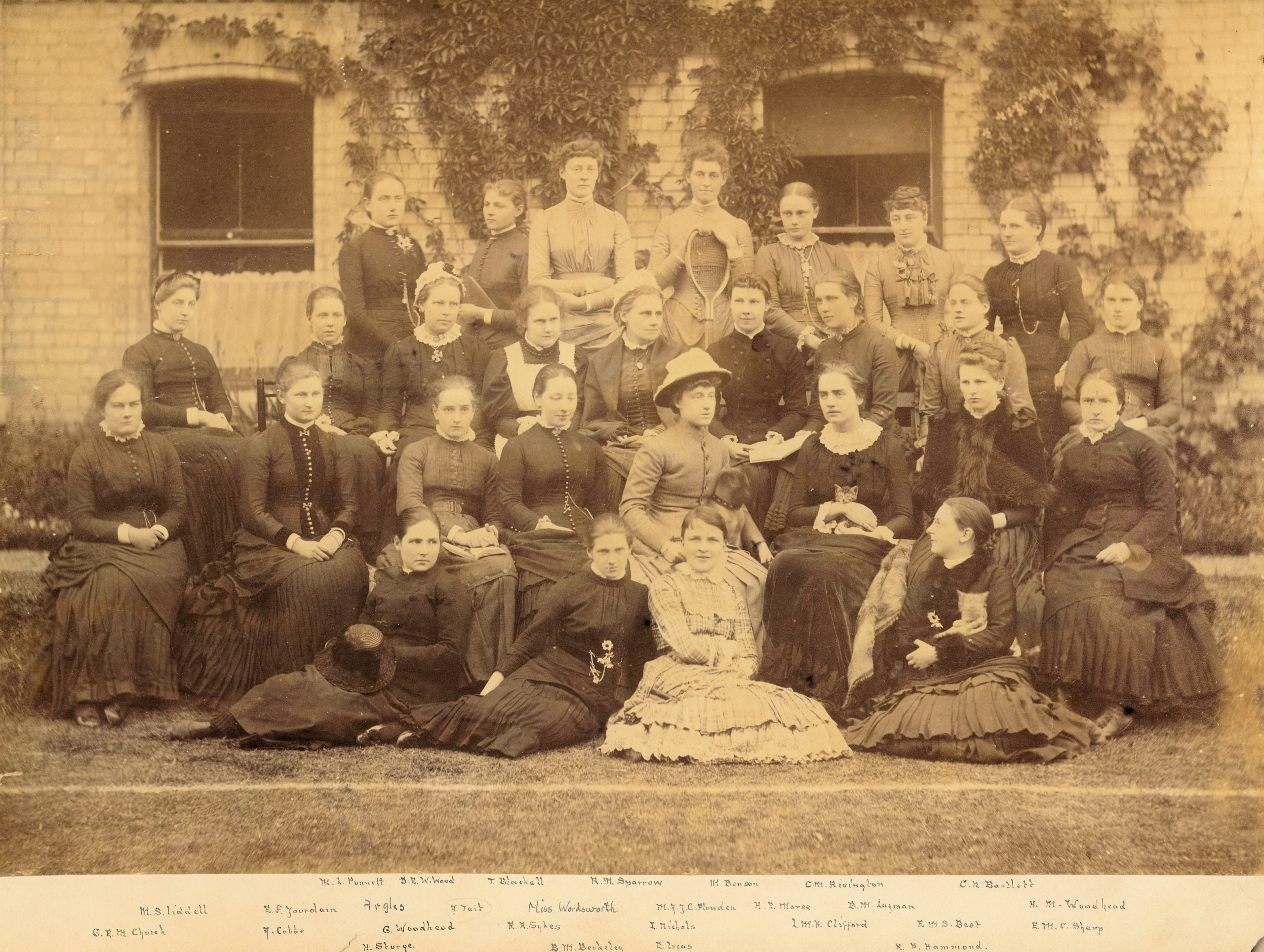 Grace Eyre Woodhead (1864–1936), philanthropist and mental health reformer, c. 1885